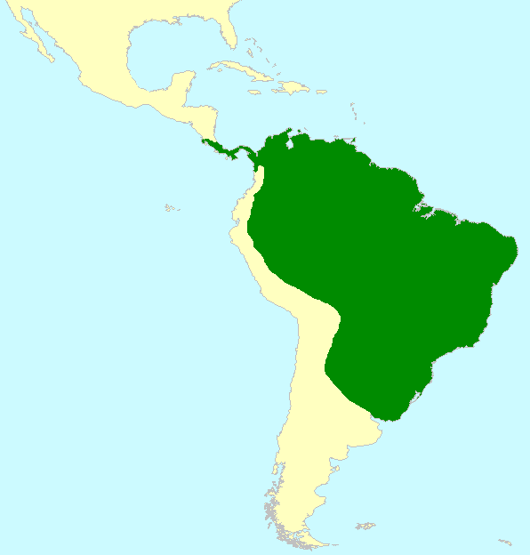 Range map of grey-necked wood rail (Aramides cajaneus). data taken from (2015). "A taxonomic review of Aramides cajaneus (Aves, Gruiformes, Rallidae) with notes on morphological variation in other species of the genus". ZooKeys 500: 111–140. ISSN 1313-2970. and base map is File:América latina en blanco.PNG